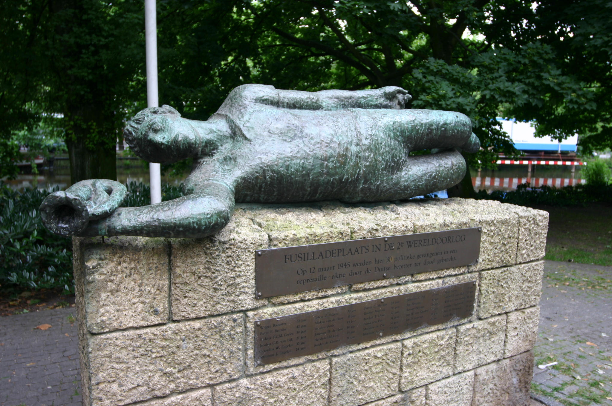 The Fallen Hornblower by Gerrit Bolhuis at the Eerste Weteringplantsoen in Amsterdam